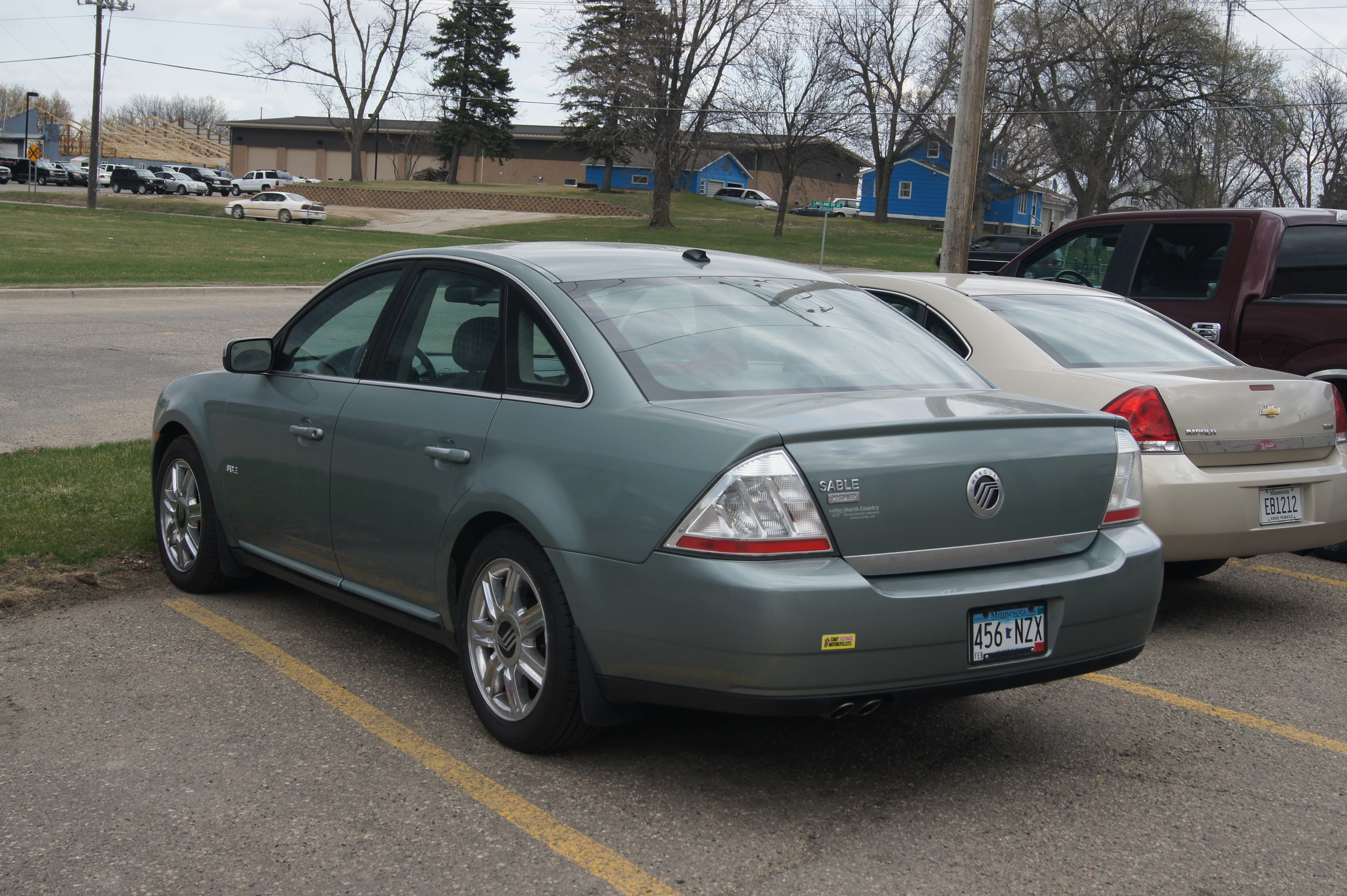 Click here for more car pictures at my Flickr site.